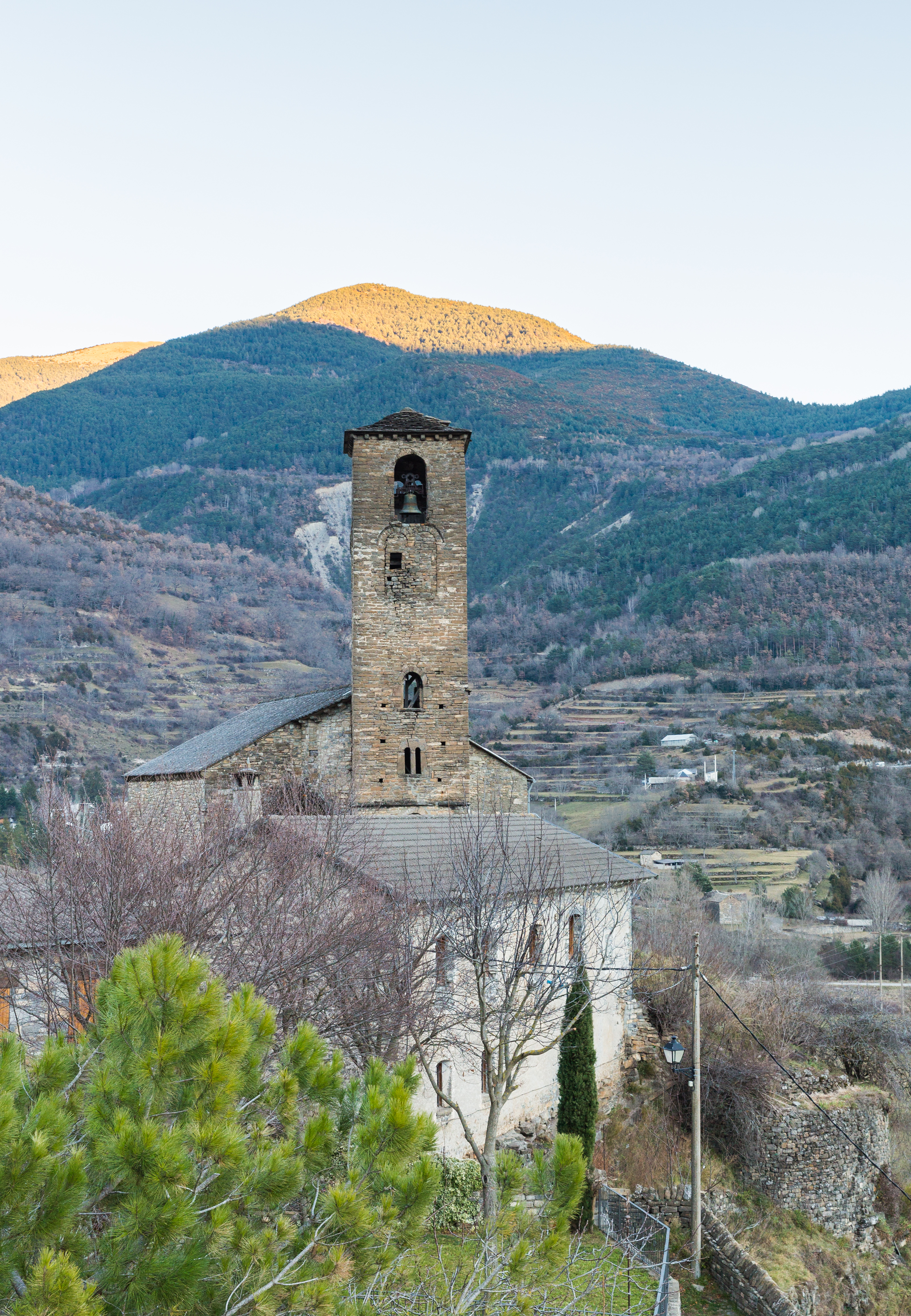 Church of San Saturnino, Oto, Huesca, Spain